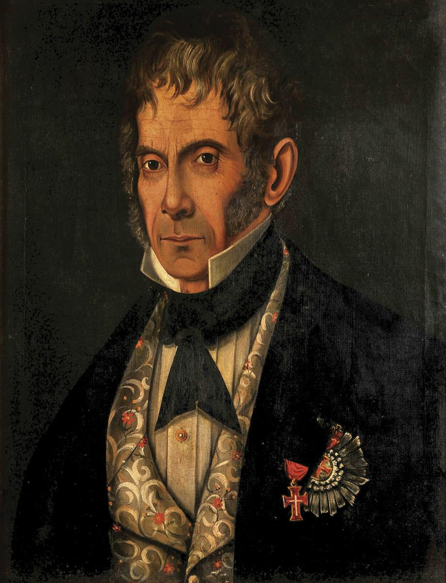 Portrait of Jorge Joaquim Salema de Andrade Guerreiro de Aboim (1782-1862)